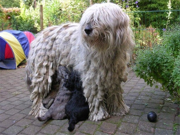 Bergamasco "Wally di Valle Brembana" feeding her 7 weeks old puppies